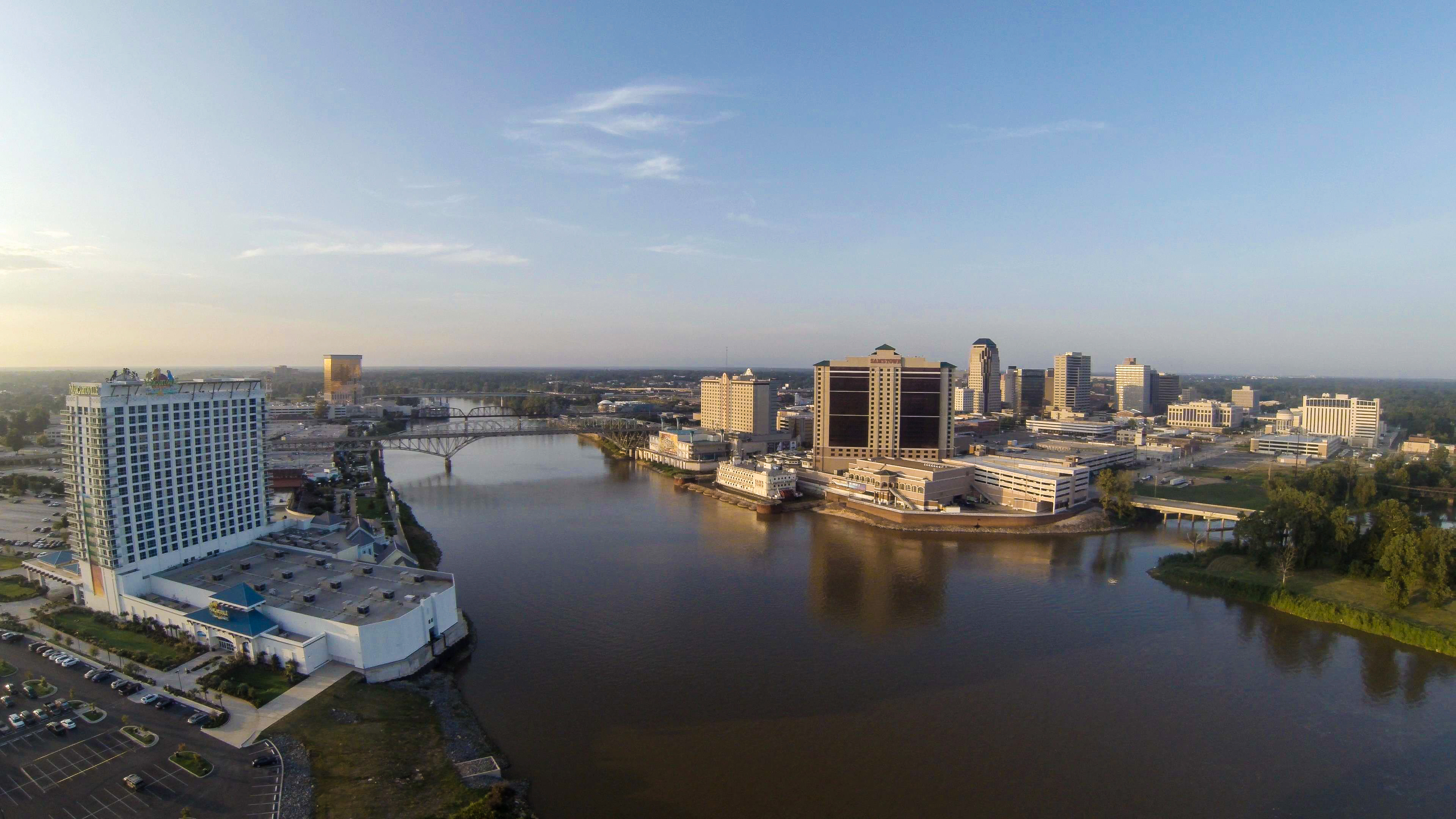 Skyline of Shreveport and Bossier City, Louisiana, United States, over Red River.